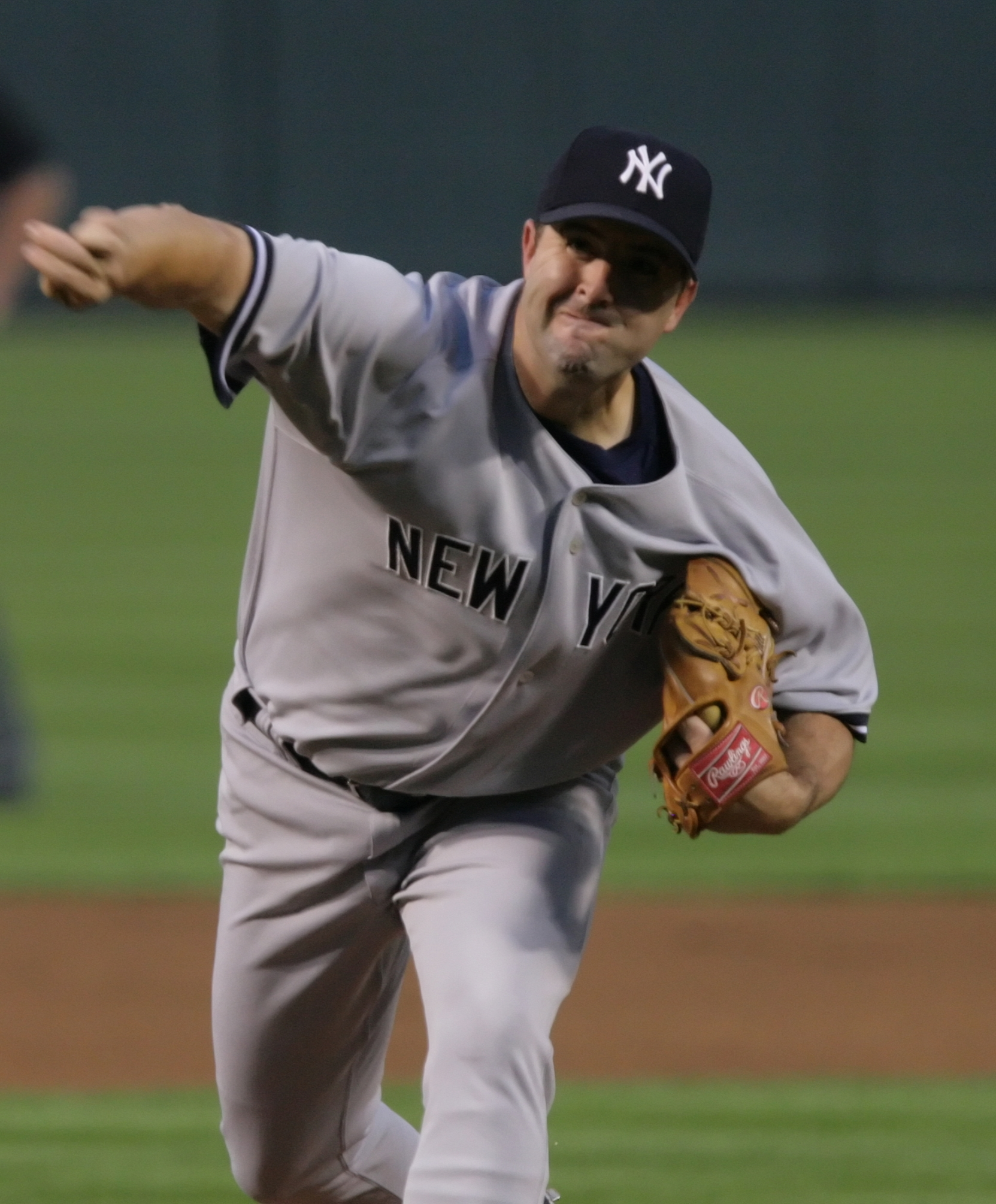 An image of New York Yankees pitcher Cory Lidle in 2006, a month before his death.